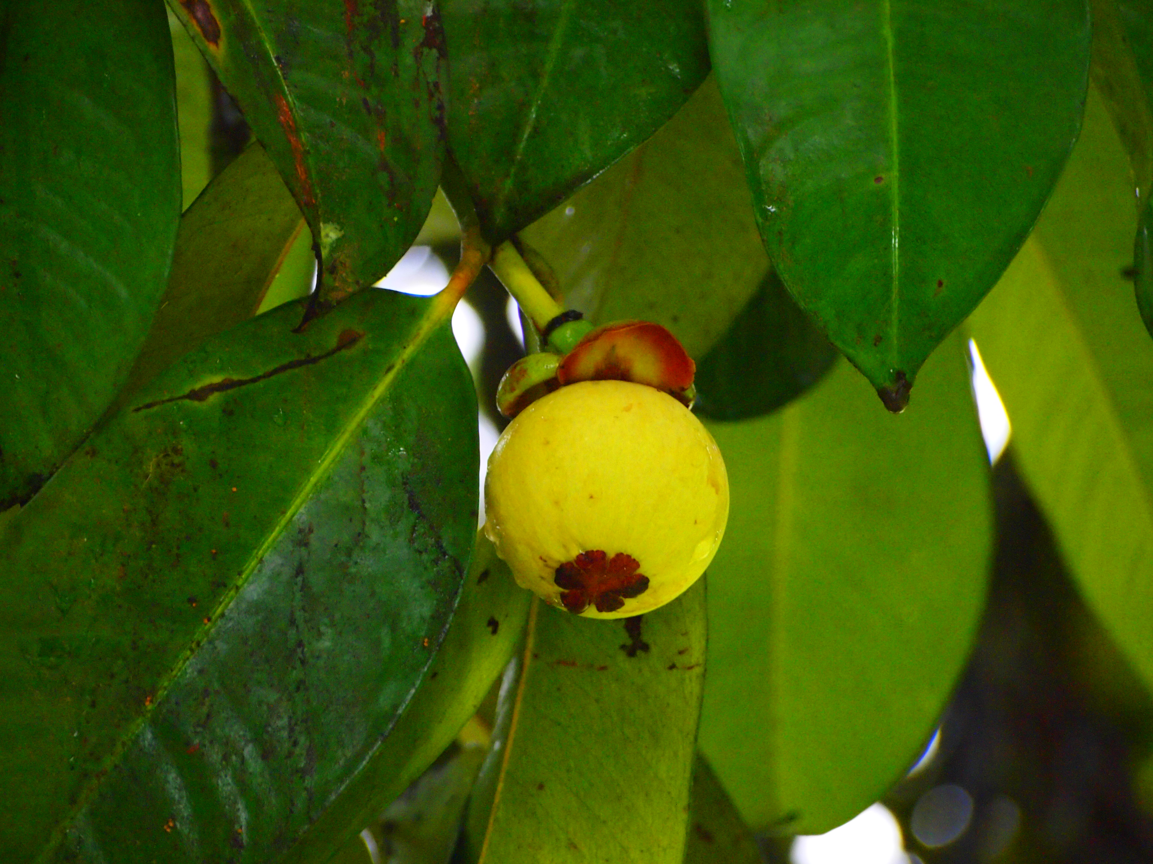 Young Mangosteen Fruit in Malaysia